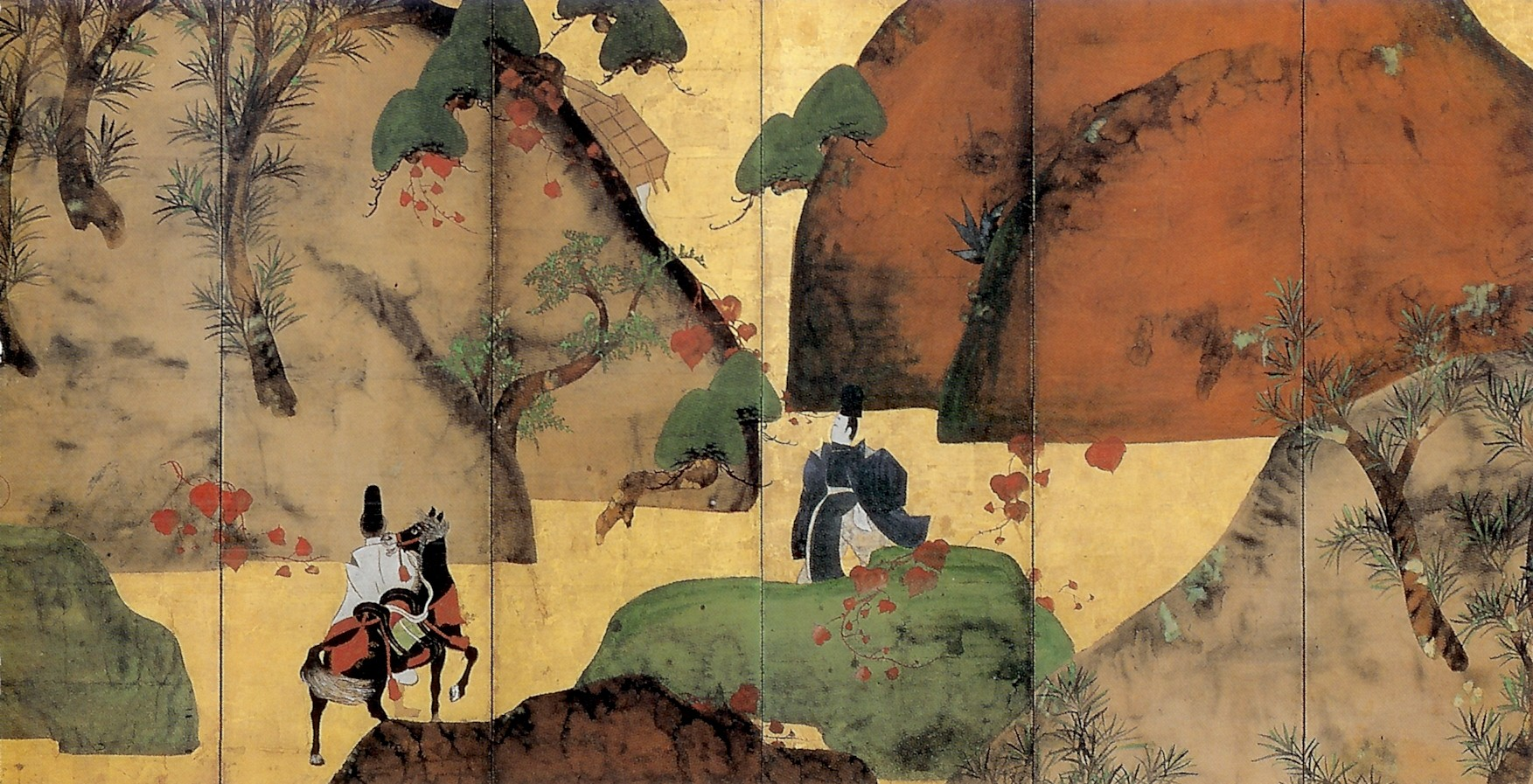 screen by Fukae Roshu "Narrow ivy road". Six-fold screen, color on gold leafed paper, Important Cultural Property